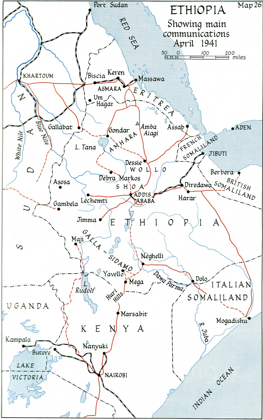 Map of Italian lines of communication in East Africa, April 1941